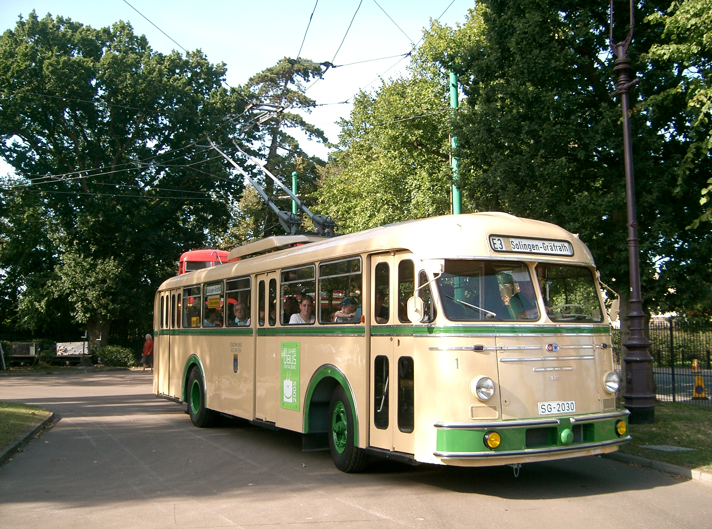 Solingen 1 at the East Anglia Transport Museum